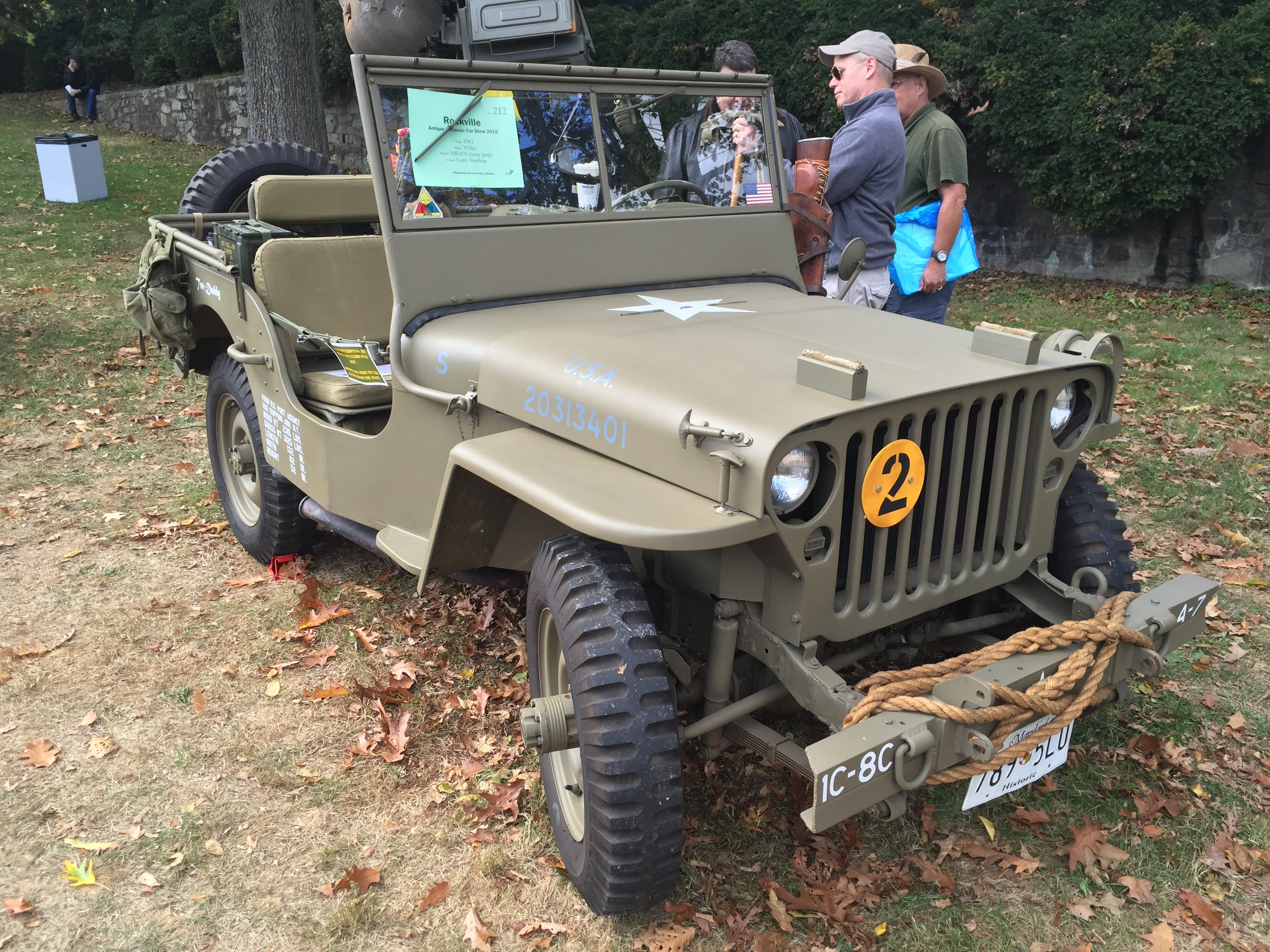 1943 Willys MB - US Army Jeep. Produced by Willys-Overland Motors, one of around 363,000 built during World War II (the identical model was also assembled by Ford, which made about 280,000 units). Picture taken during the 2015 Rockville Antique and Classic Car Show in Maryland.